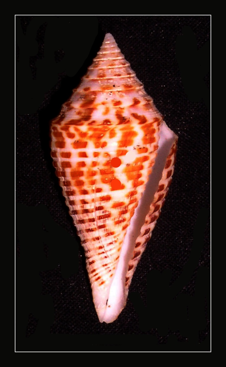 Conus eugrammatus from the Philippines